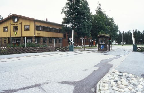 Main entrance gate at Heistadmoen base